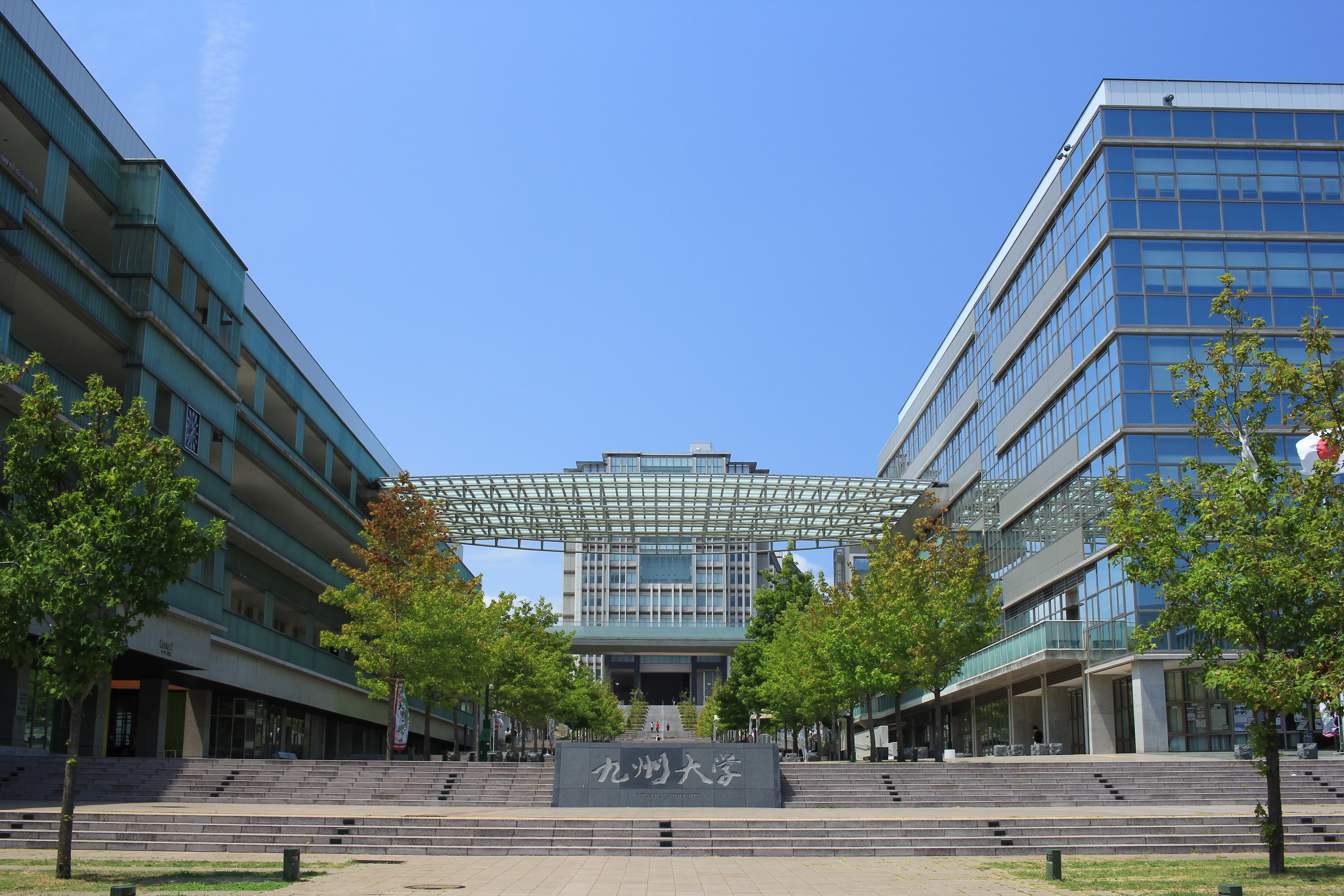 Kyushu University Ito Campus Center Zone and main entrance Canon EOS 60D